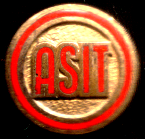 ASIT member's insignia